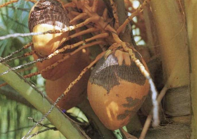 Coconuts injured by Eriophyes or Aceria guerreronis, the eriophyid coconut mite.